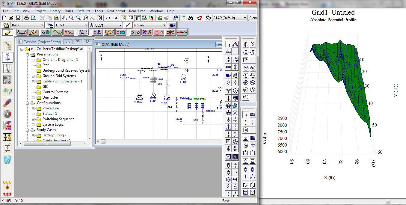 Etap design software